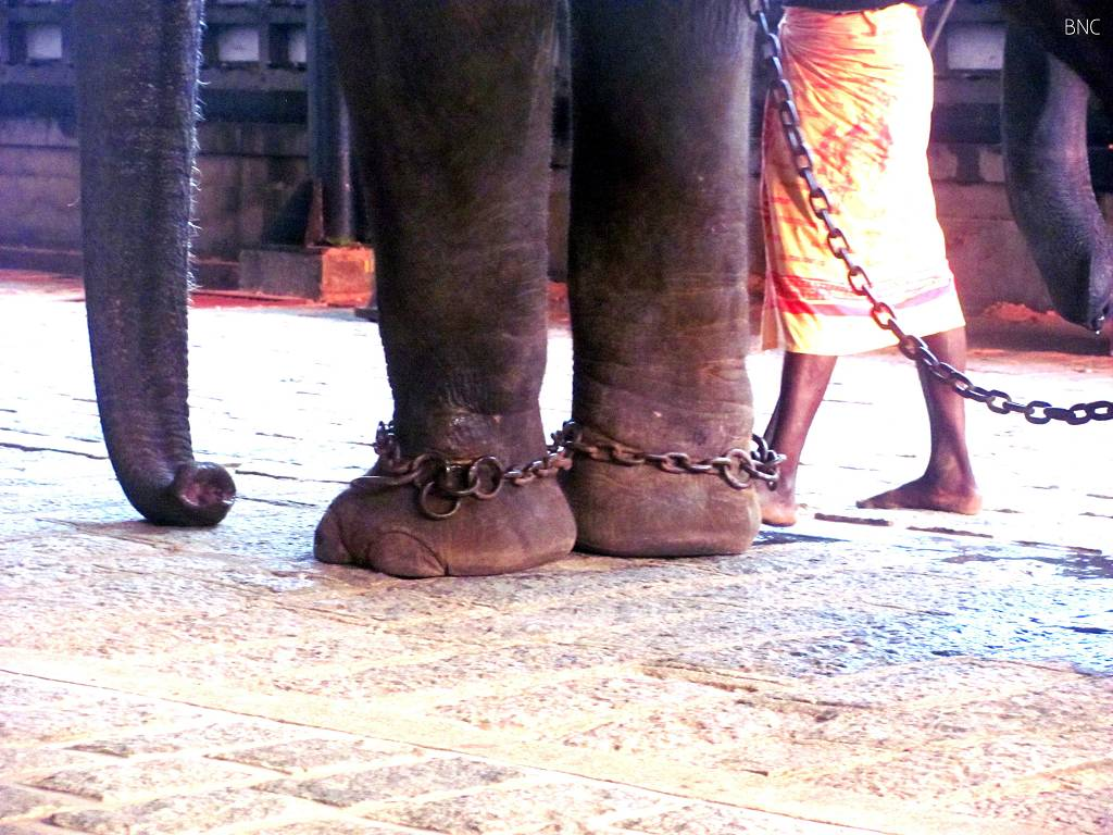 Elephant mistreat in Kerala